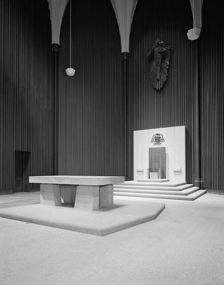 The former St. Francis de Sales Cathedral in Oakland, California. It served as the cathedral of the Catholic Diocese of Oakland from 1962 until it was damaged in the 1989 Loma Prieta earthquake. It was toen down in 1993.